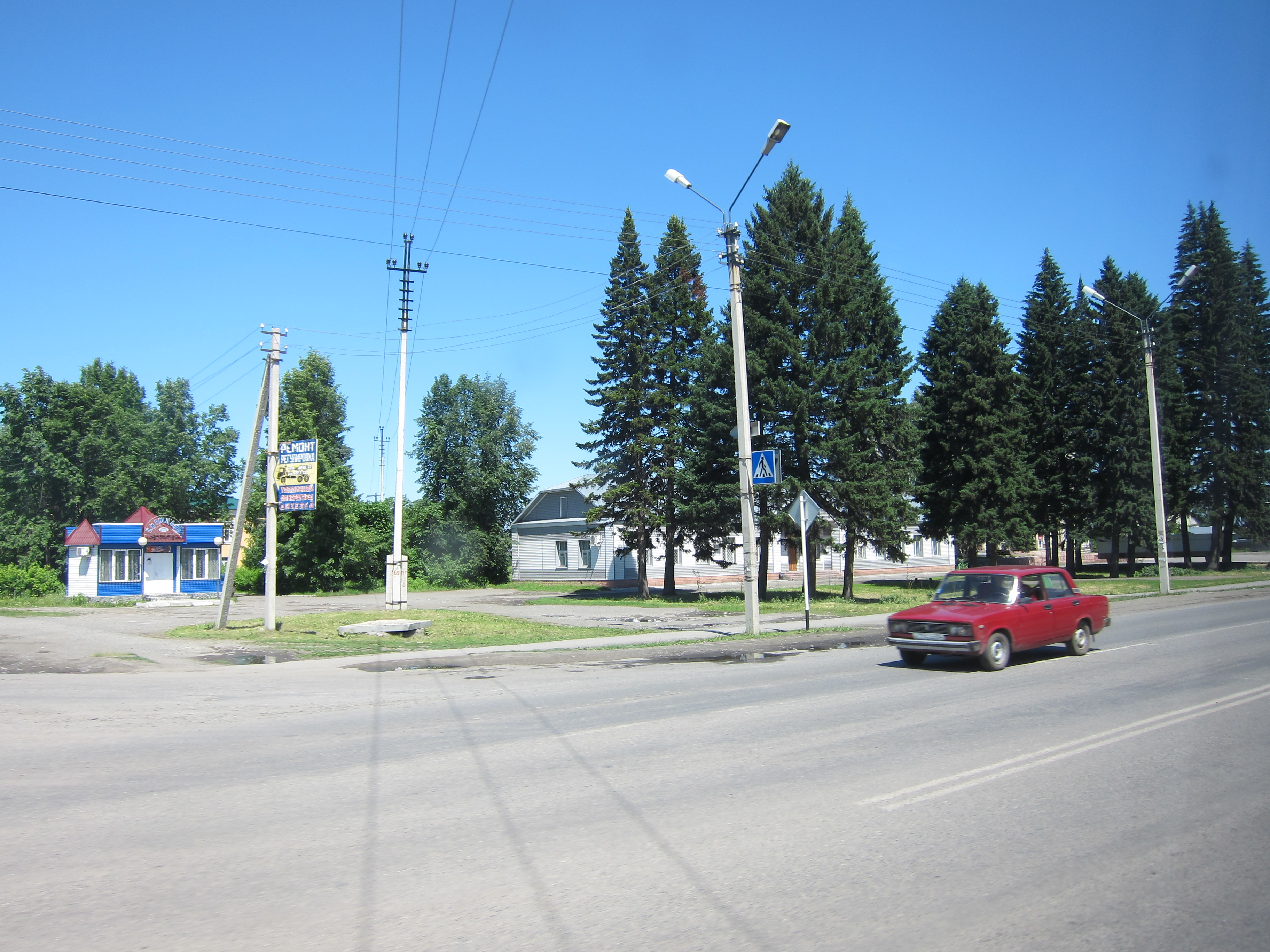 M52 highway (Chuysky Trakt) in Mayma settlement